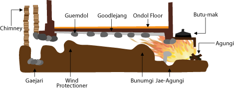 An illustration of the ondol system in english.